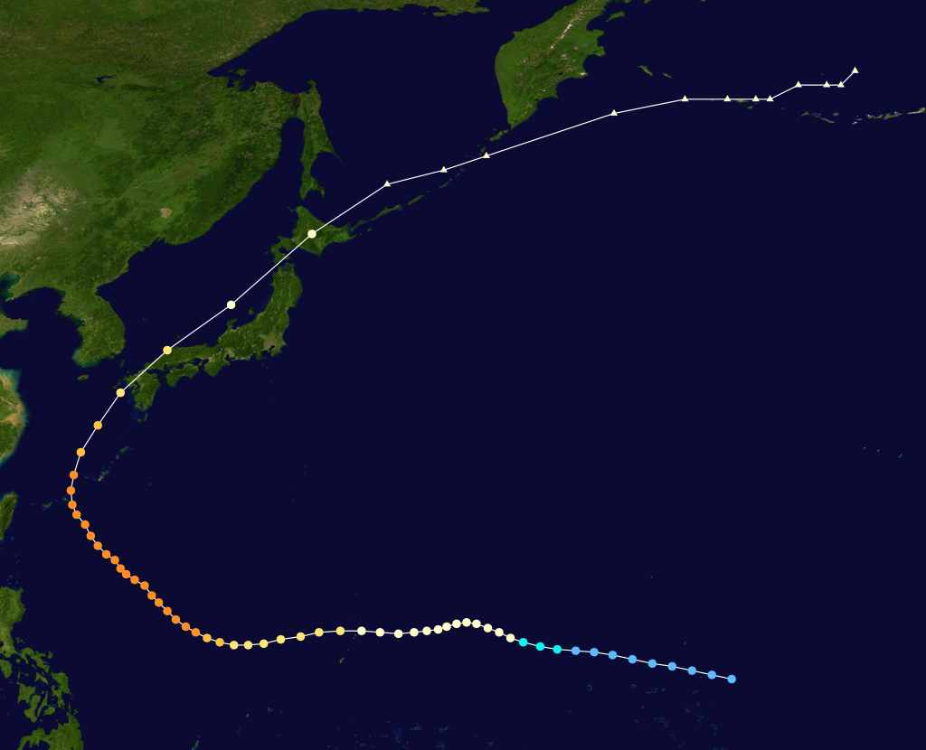 Typhoon Mireille (1991) track. Uses the color scheme from the Saffir-Simpson Hurricane Scale.